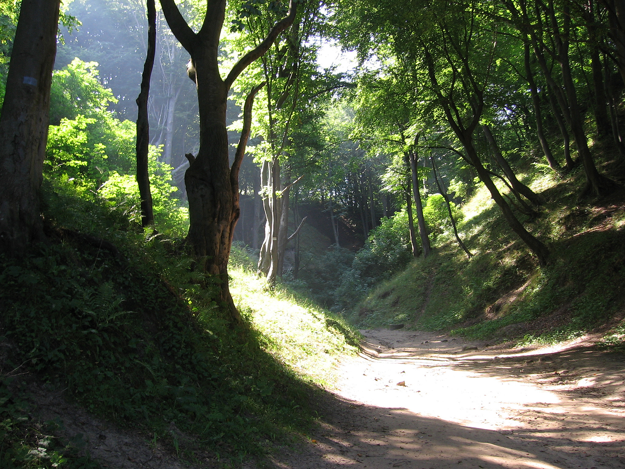 Fox's den near Jastrzębia Góra, Poland